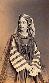 Portrait of Madame Céline Céleste, French dancer and actress.